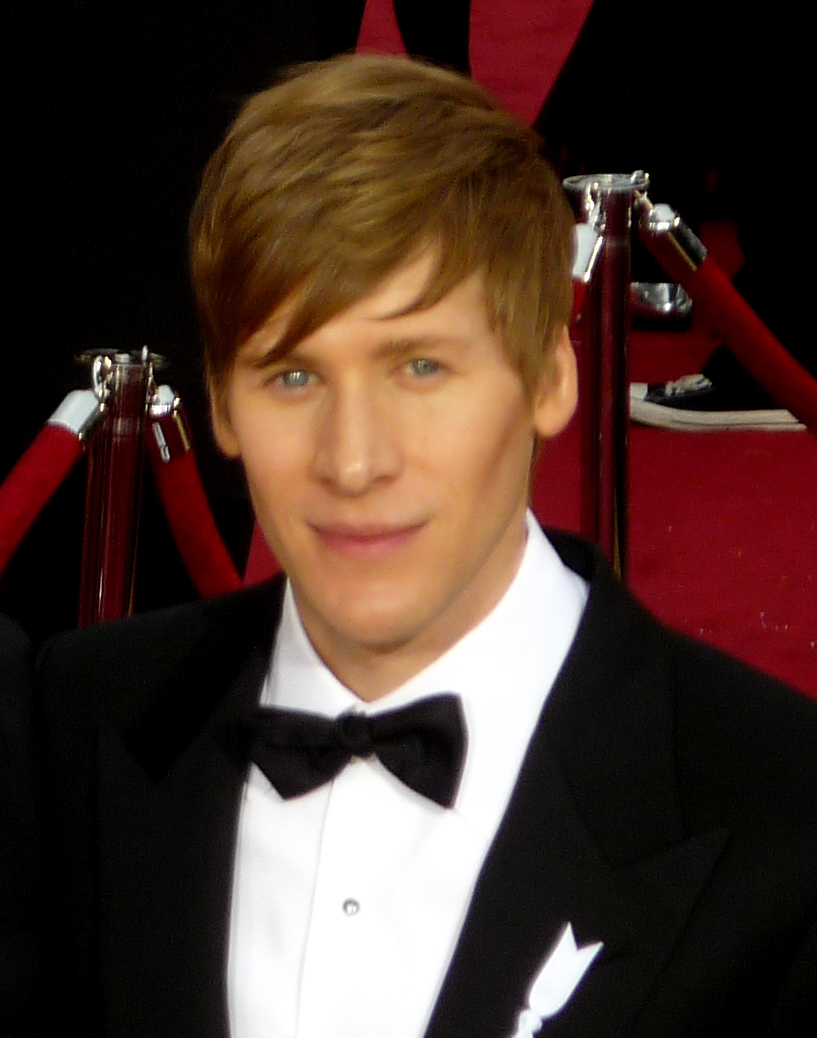 Free free to use this photo. Just link to the photo page or Greg In Hollywood